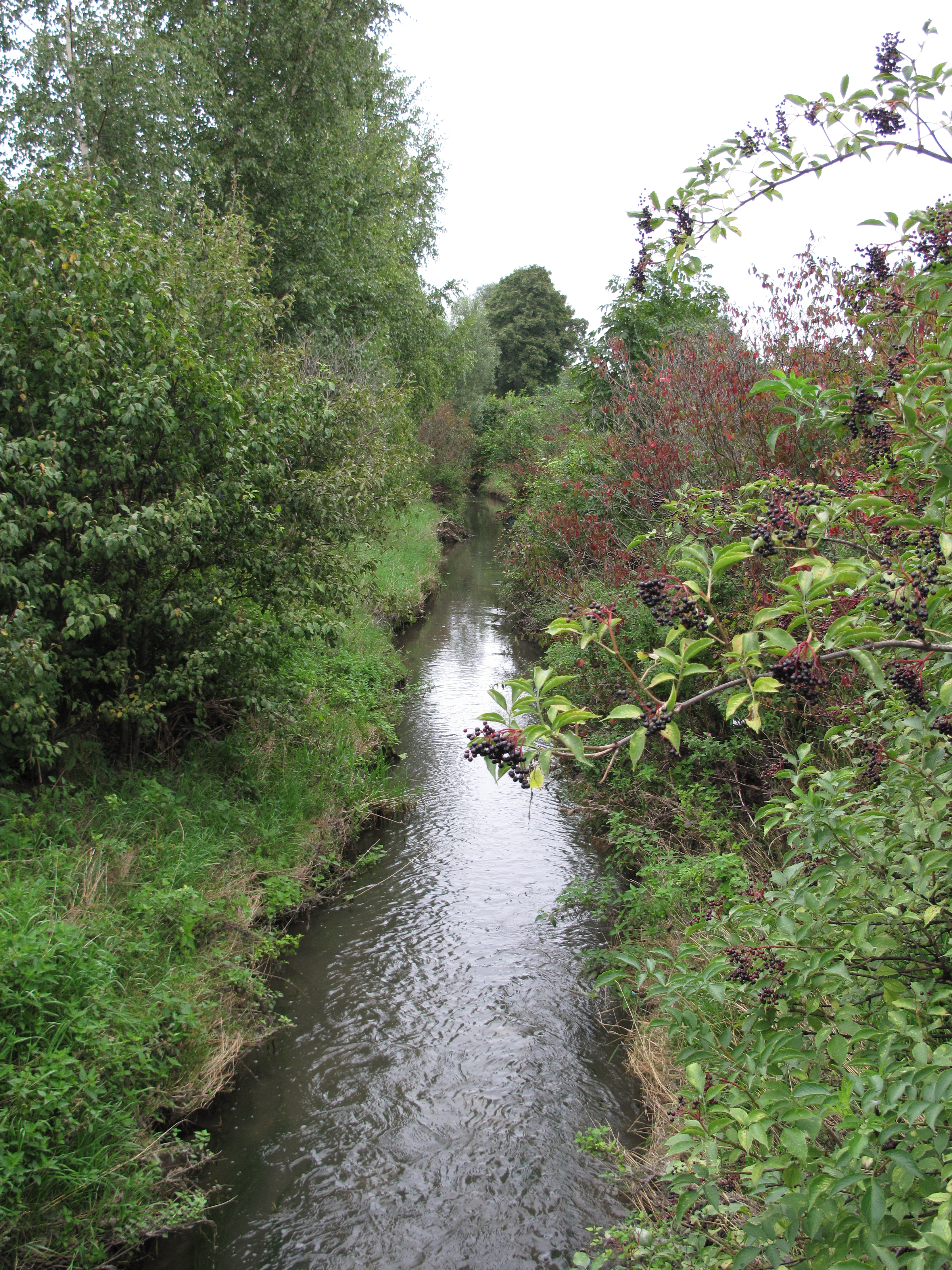 Modla Stream near Želoechovice village, Litoměřice District, Czech Republic.